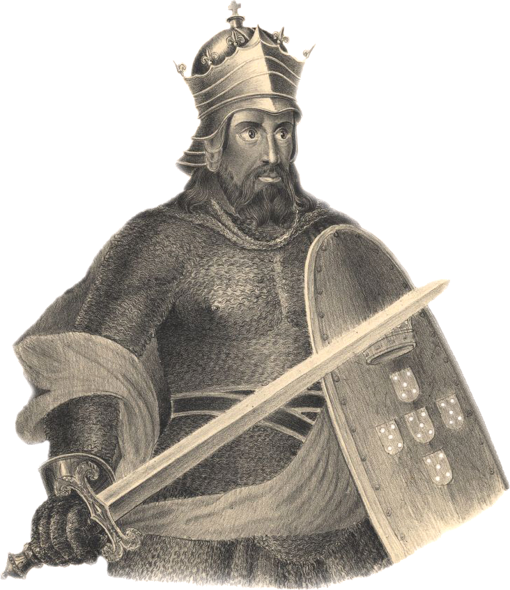 Afonso I (August 1109 - 6 December 1185), the first King of Portugal.